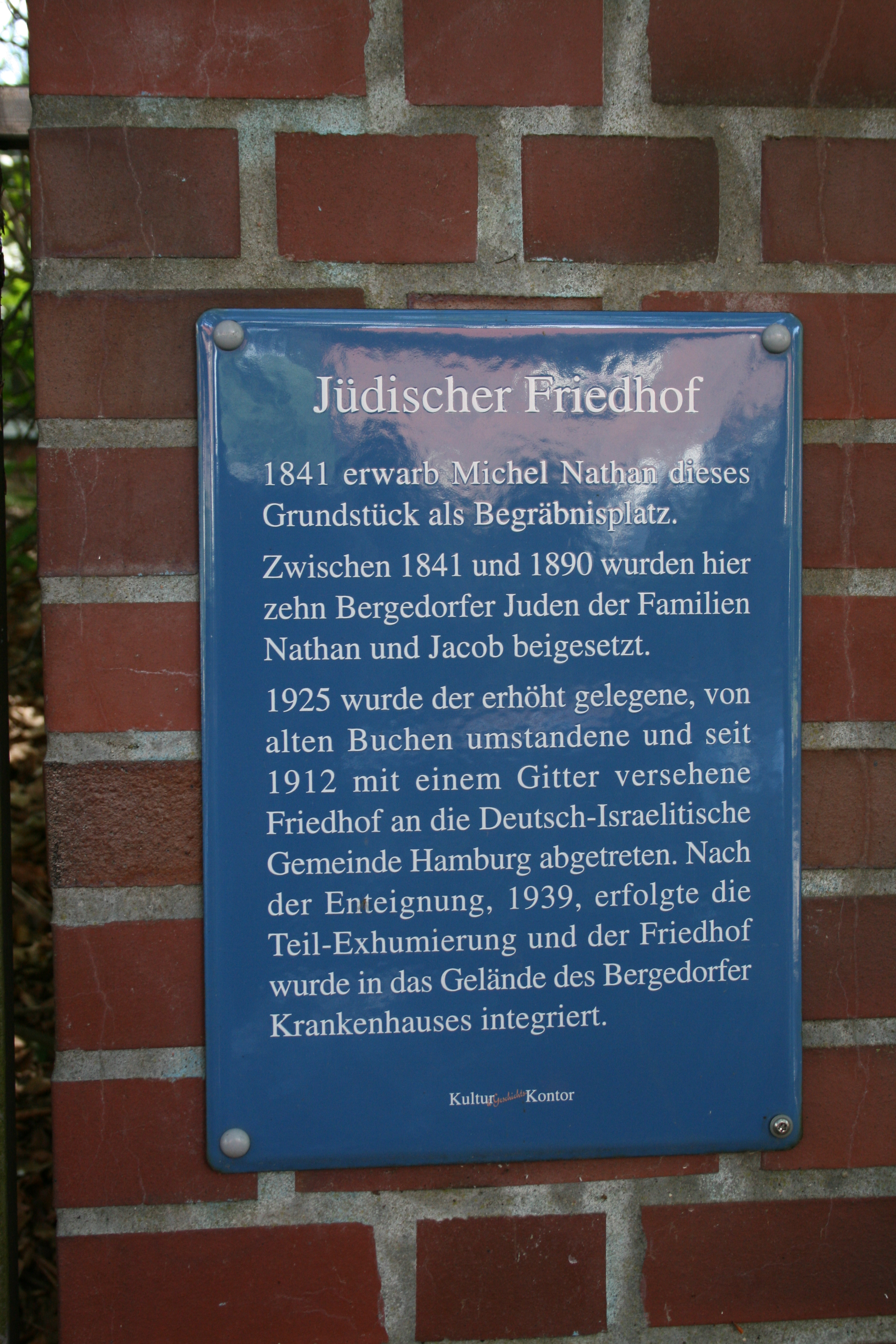 Memorial of the ancient jewish cemetery in Hamburg-Bergedorf